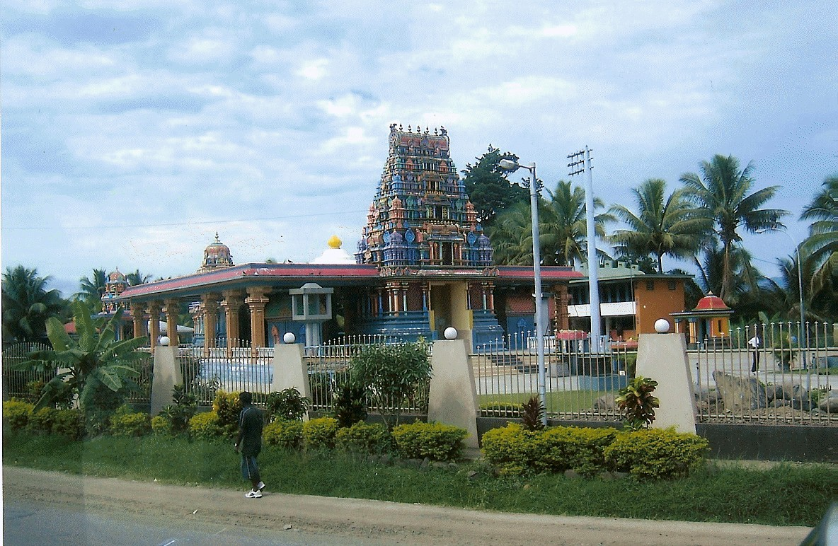 Sri Sivasubramaniya Swami Temple, Nadi, Fiji